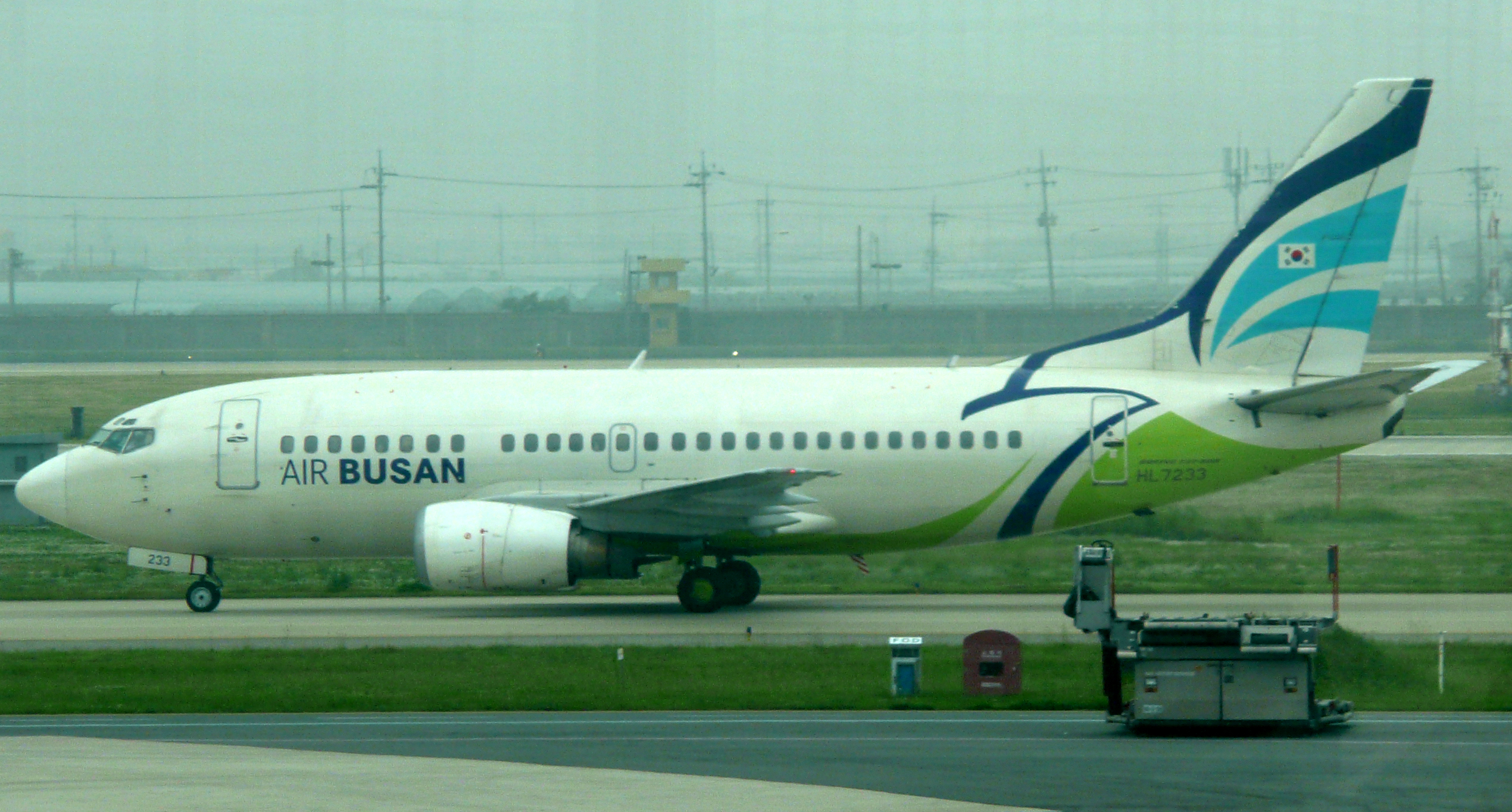 Air Busan, at the Airport in Busan, South Korea